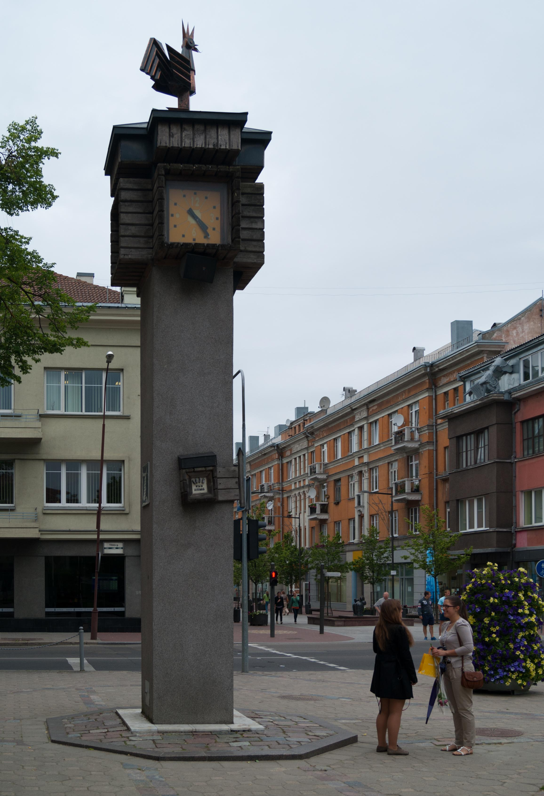 Šiauliai Cockerel Love Clock in Šiauliai, Lithuania.